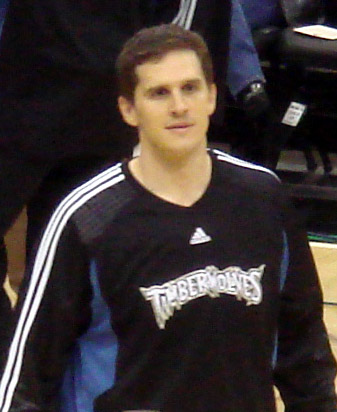 Mark Madsen, playing for the Minnesota Timberwolves, during a 2007-08 NBA season game against the Phoenix Suns at the Target Center arena in Minneapolis, Minnesota. The Wolves would win, 117–107.